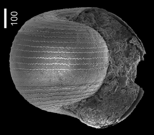 Apertural view of juvenile shell of Oxygyrus keraudrenii from the Pliocene. Locality: sample Anda1, Anda, Pangasinan, Luzon, Philippines. Registration number (RGM) 539 784.